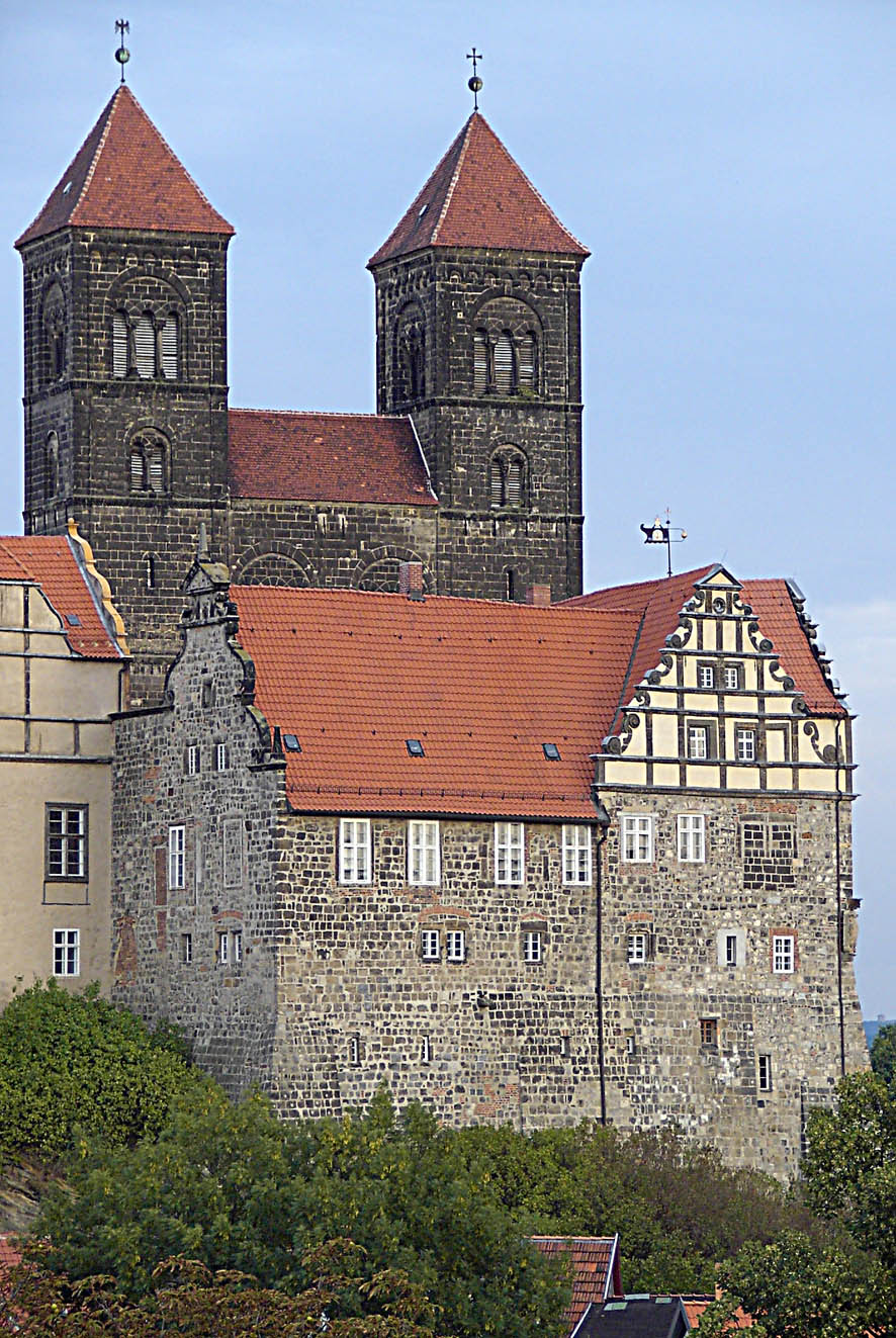 Quedlinburg Castle